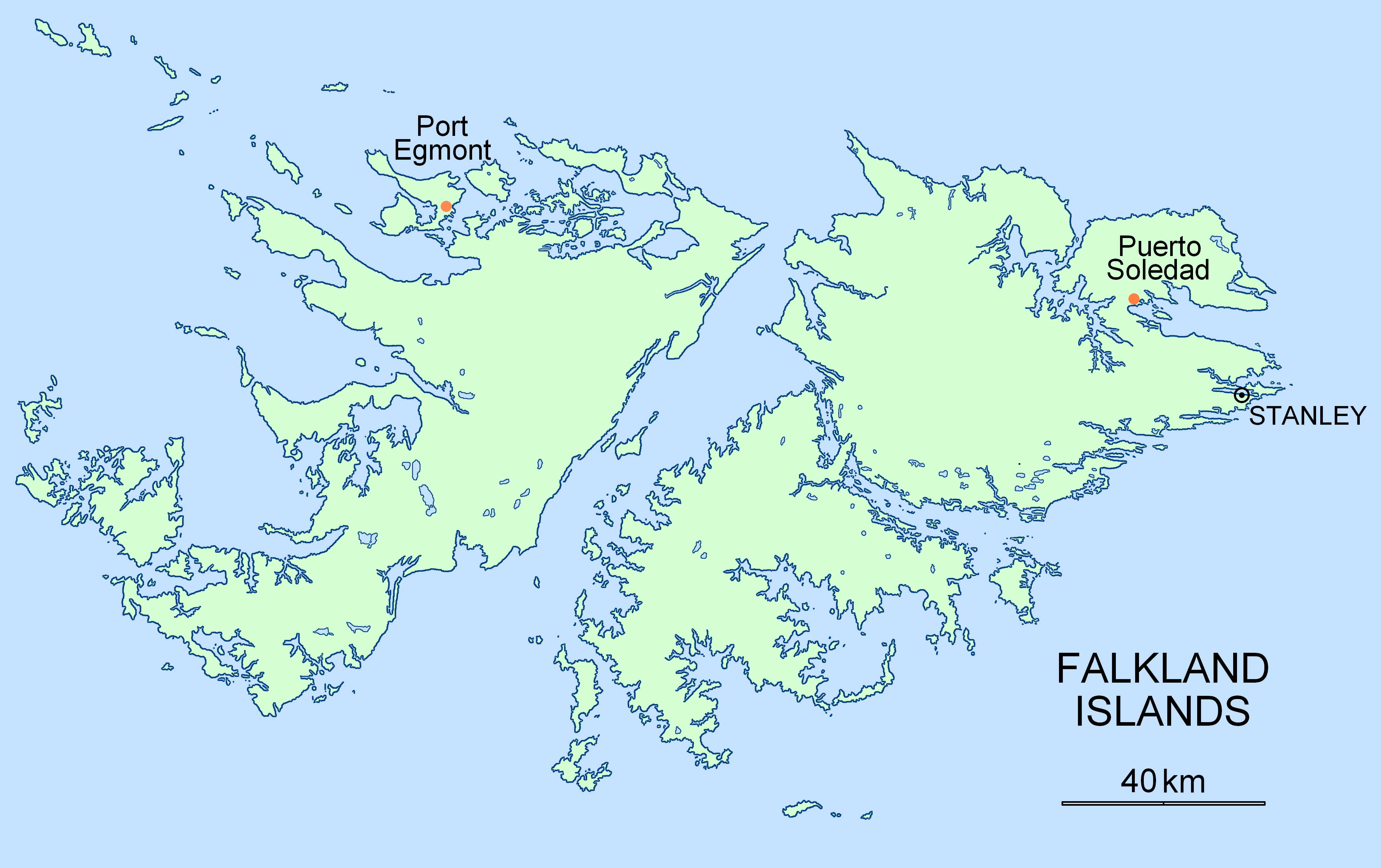 Location map for the historical settlements of Port Egmont and Puerto Soledad, Falkland Islands